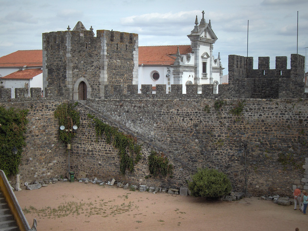 Castle of Beja, Portugal (in the background the cathedral of Beja)